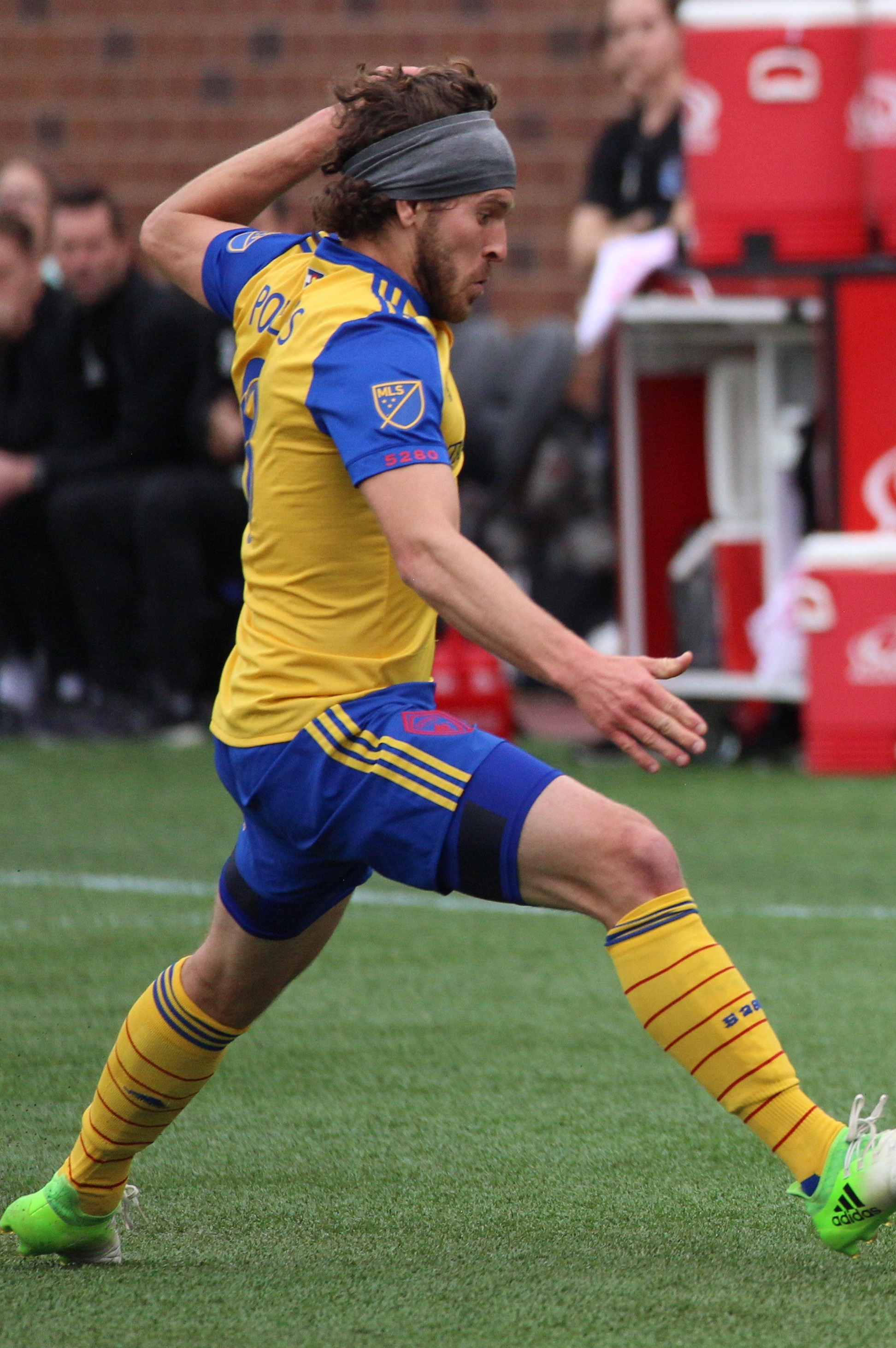 Kevin Molino of Minnesota United defended by Dillon Powers (left) and Eric Miller (3)